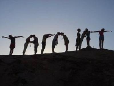 Таглит Photo of a group Taglit-Moscow while visit Israel